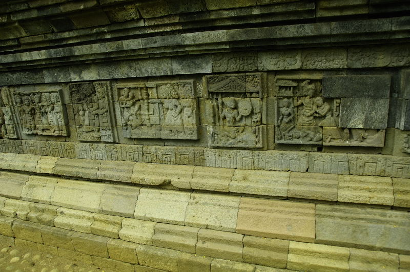 Candi Kedaton, Tiris, Probolinggo, Jawa Timur